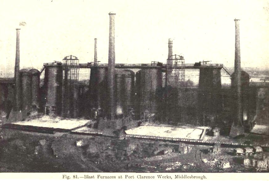 Blast furnaces at Bell Brothers' Port Clarence Works, Stockton-on-Tees, County Durham, England, from page 188-189 of The Principles and Practice of Iron and Steel Manufacture, Walter Macfarlane 1917